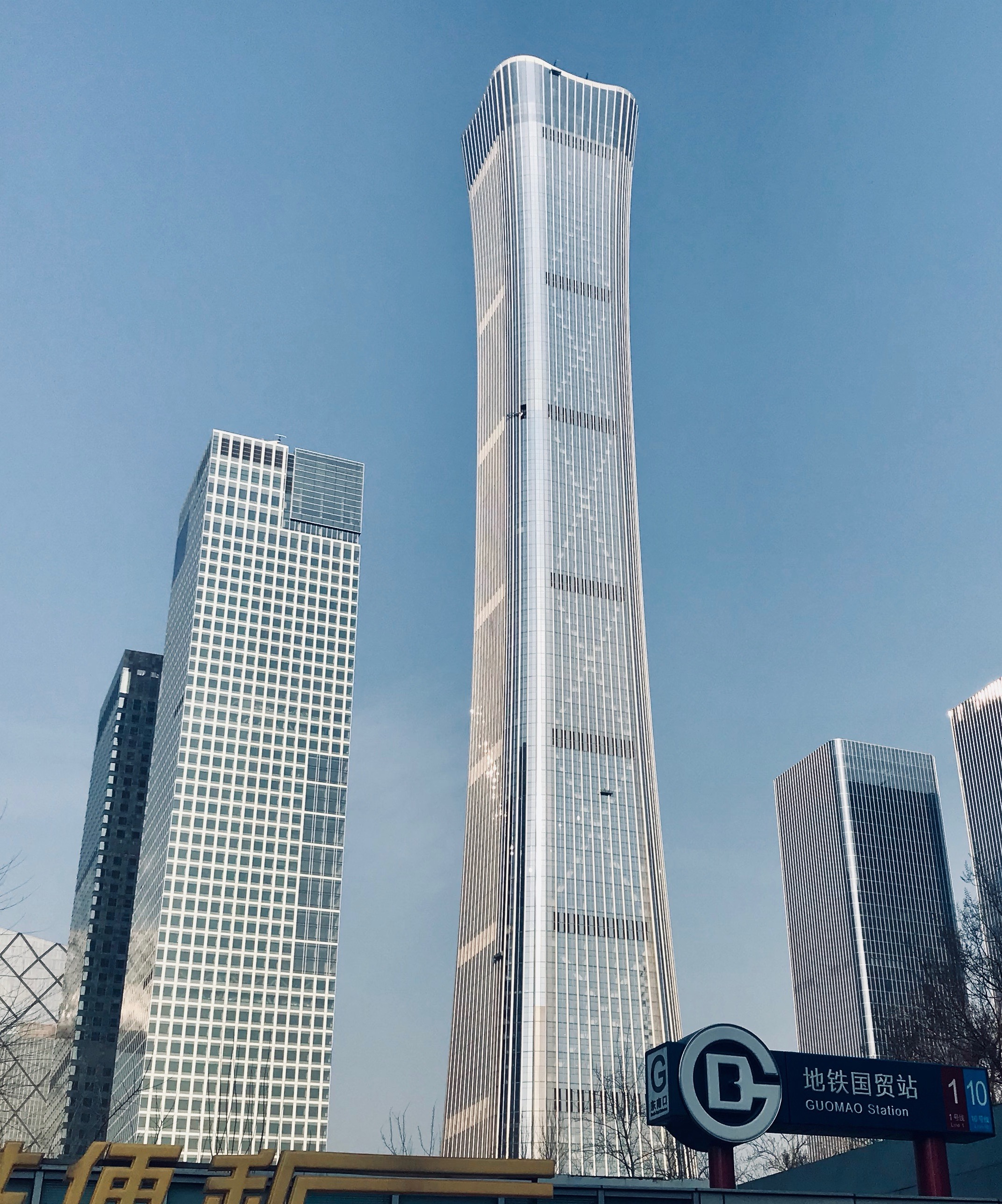 China Zun with Samsung China Headquarters (January 2019)